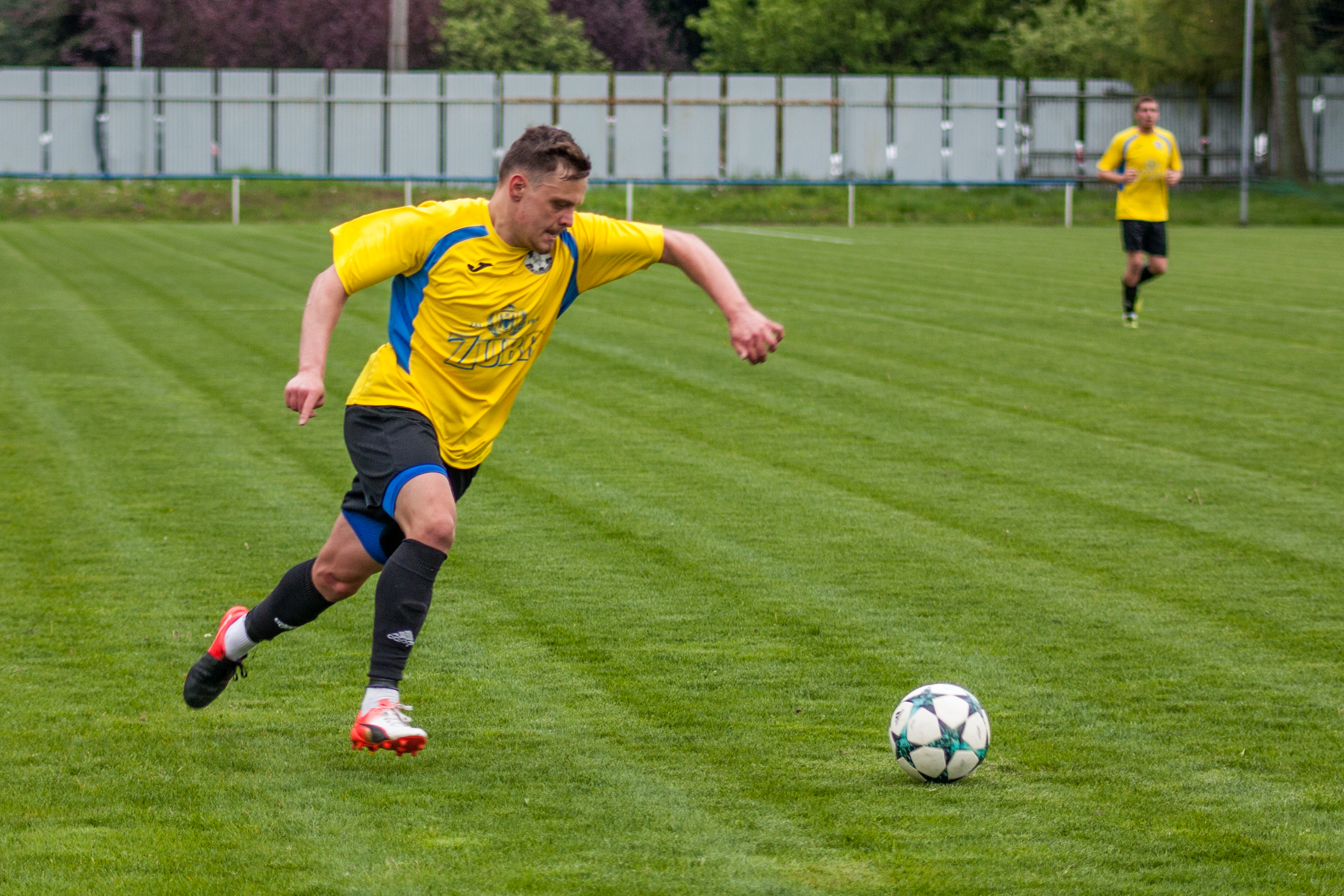 Association football match of Czech Division E 2018/19; SK Dětmarovice (white) v FK Kozlovice (yellow) (5 May 2019, Dětmarovice, Karviná District, Moravian-Silesian Region, Czechia)